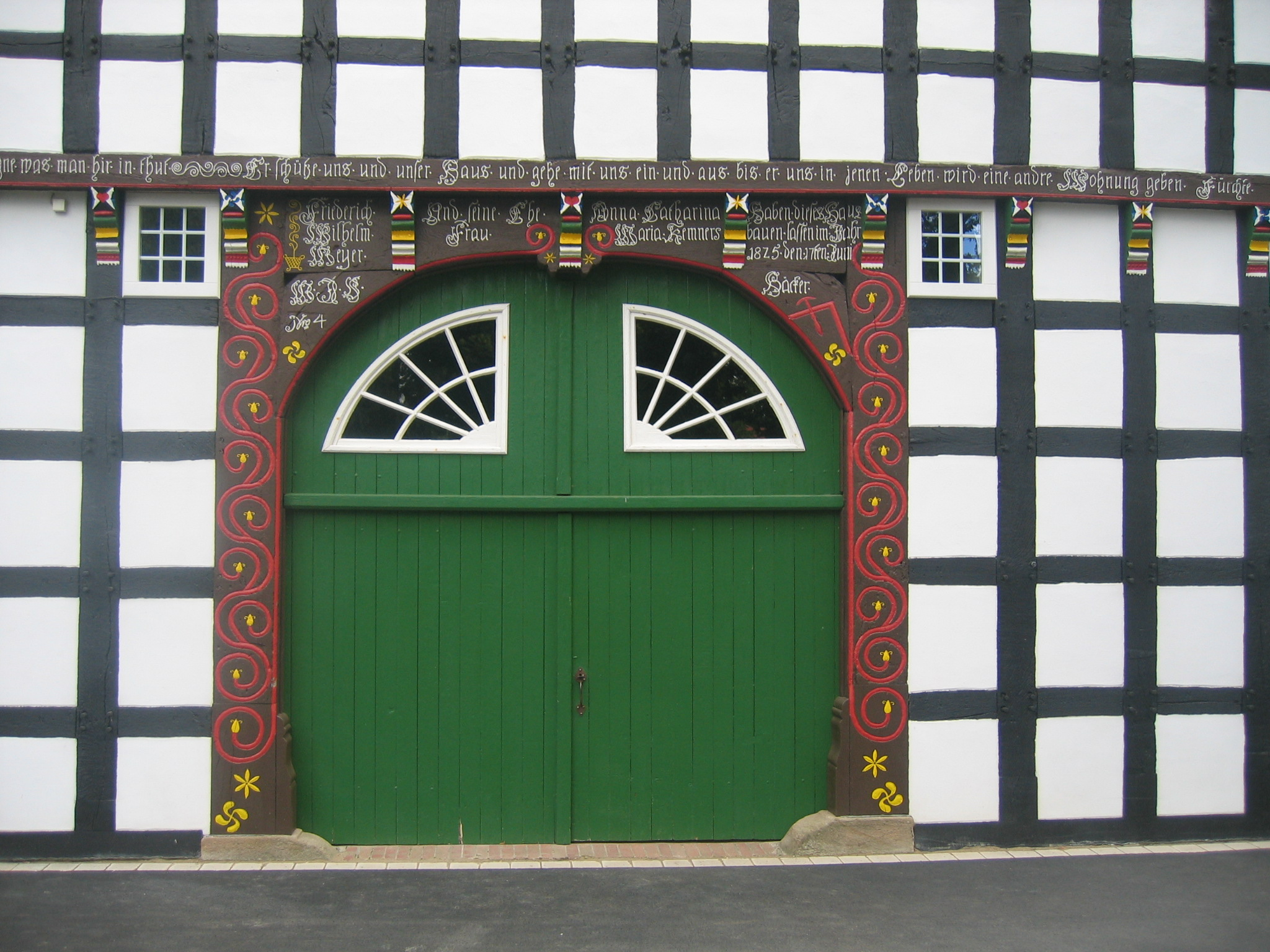 Farmhouse in Rödinghausen, District of Herford, North Rhine-Westphalia, Germany.